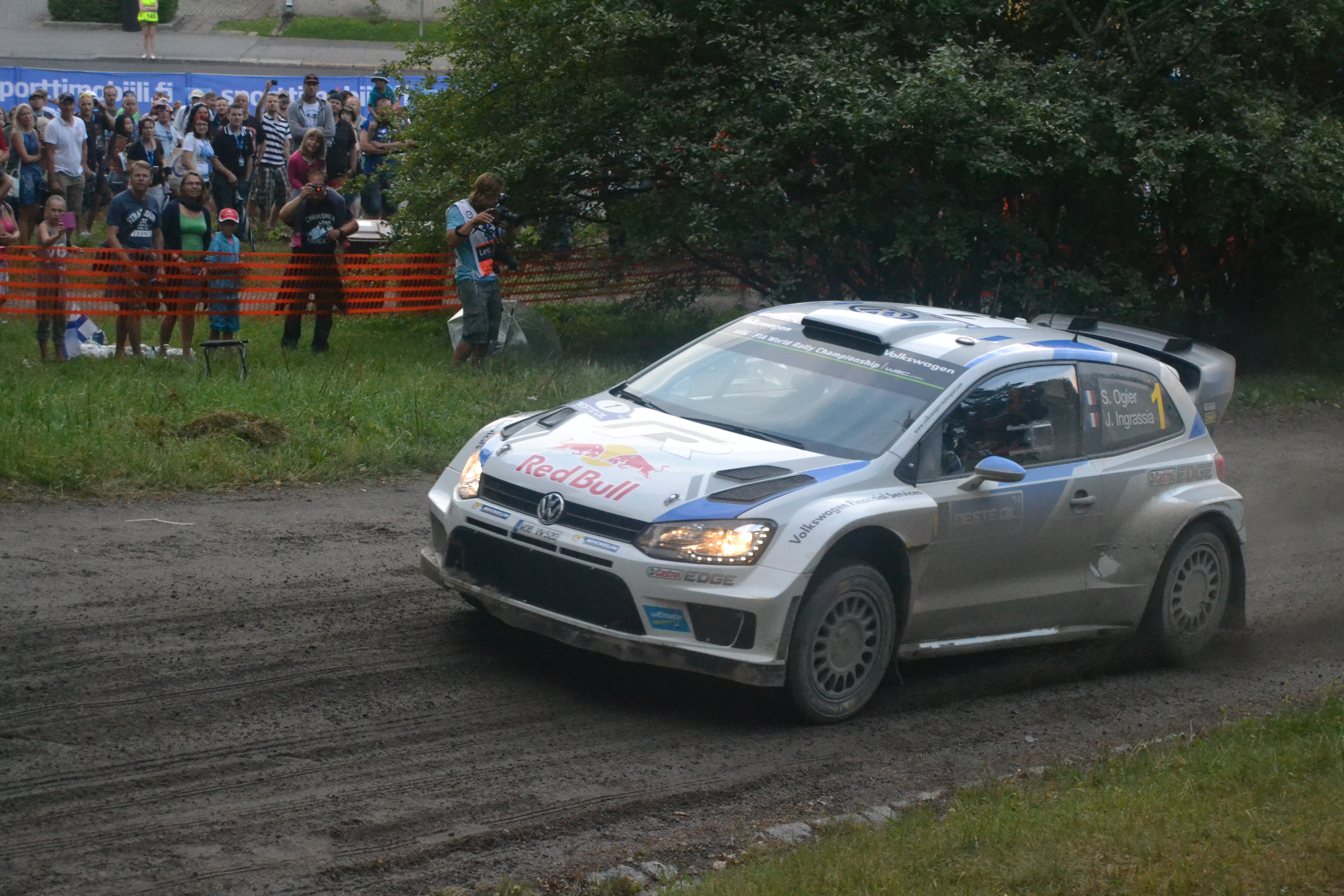 Sébastien Ogier at 1st Harju stage at 2014 Rally Finland